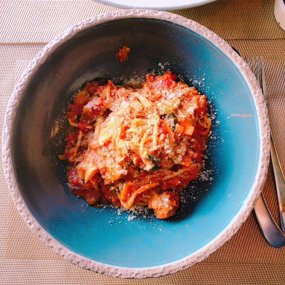 It is a bowl of seafood rose pasta.